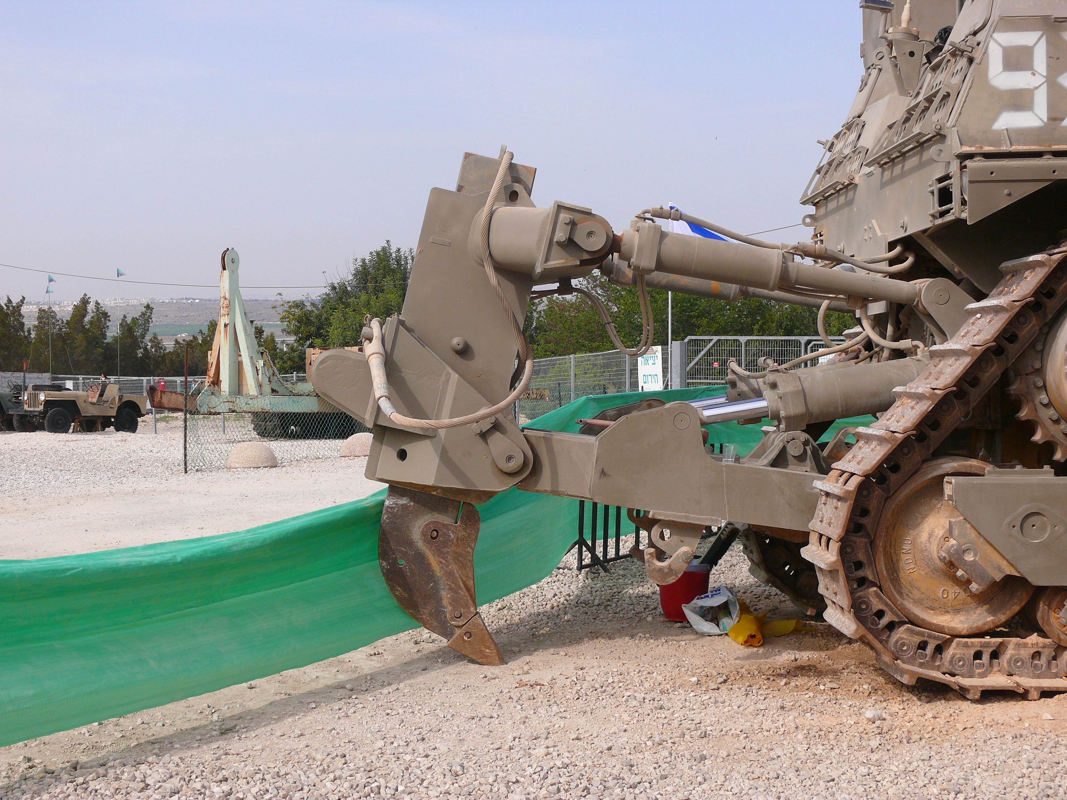 Rear ripper of a D9R